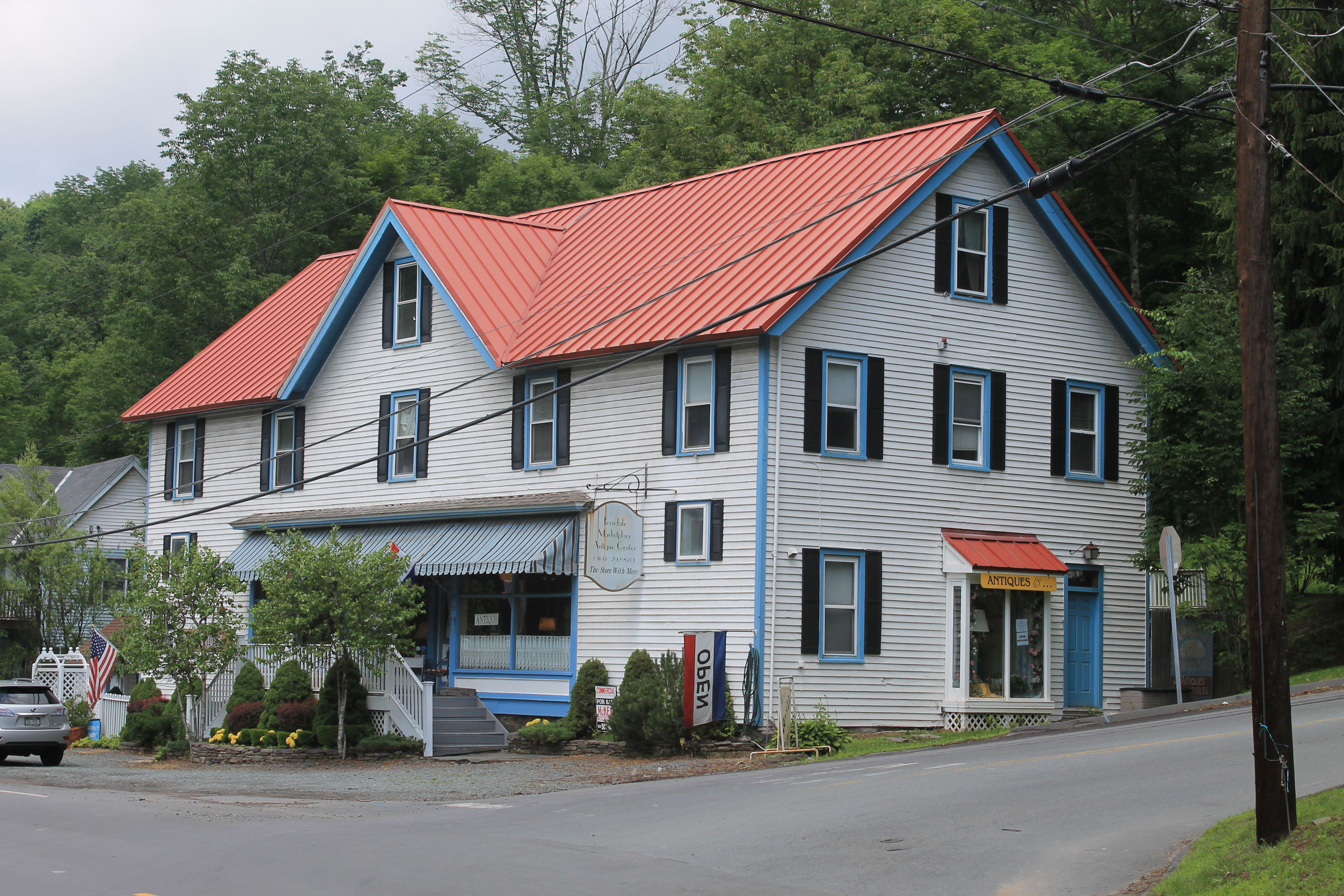 Manion